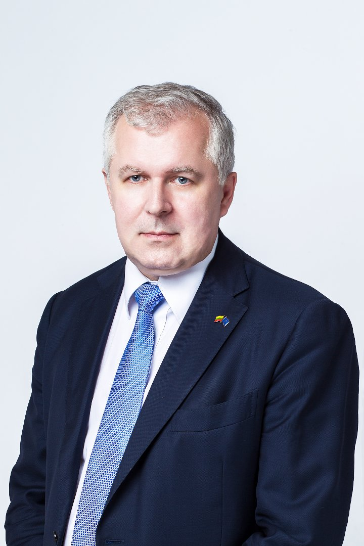 Lithuanian politician and historian